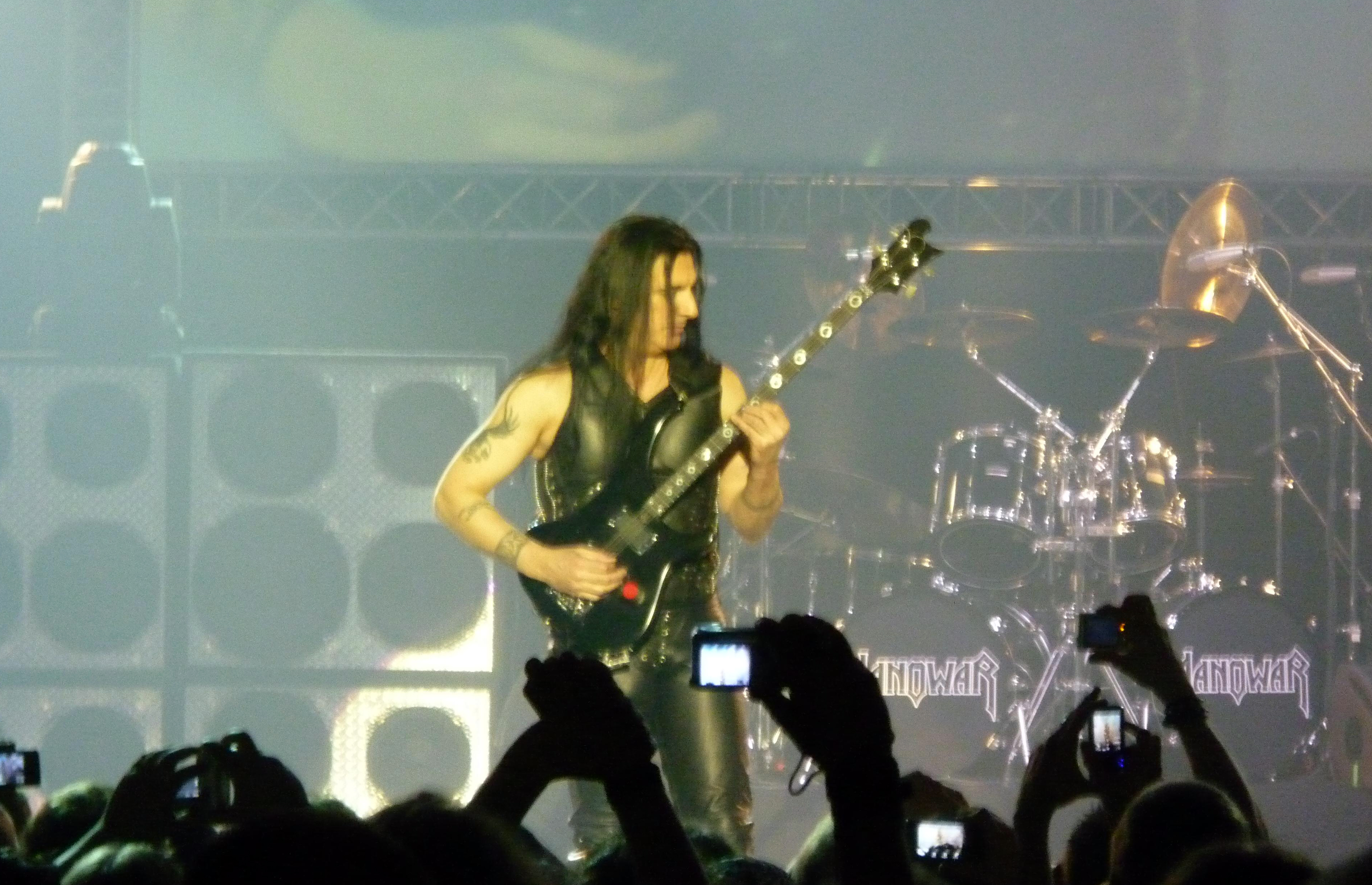 Joey DeMaio